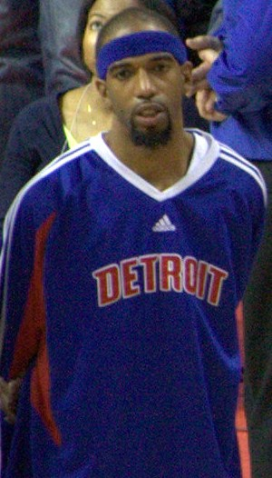 Pistons Line up during the national anthem